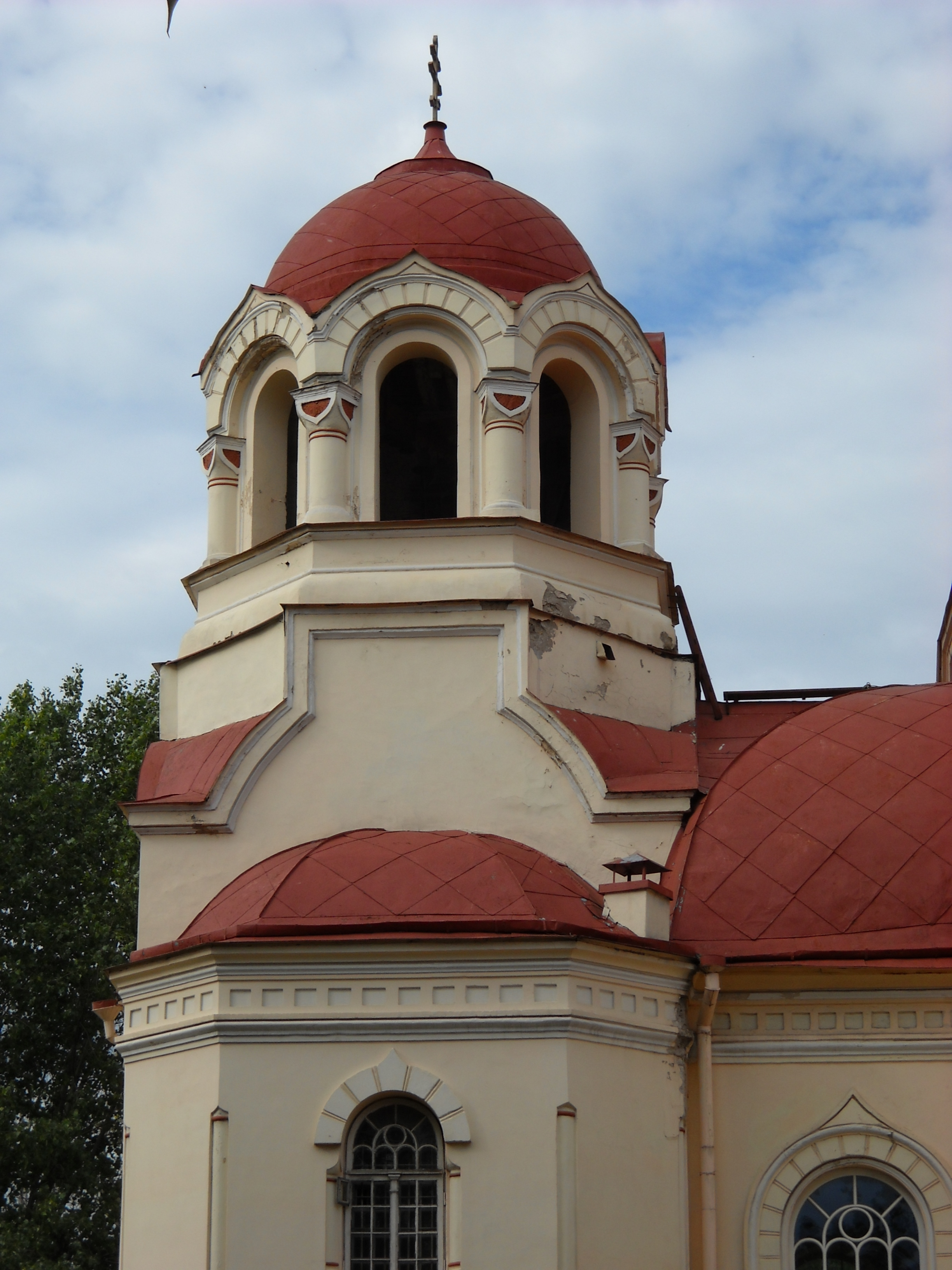 Orthodox Church of St. Michael in Vilnius. The belltower.